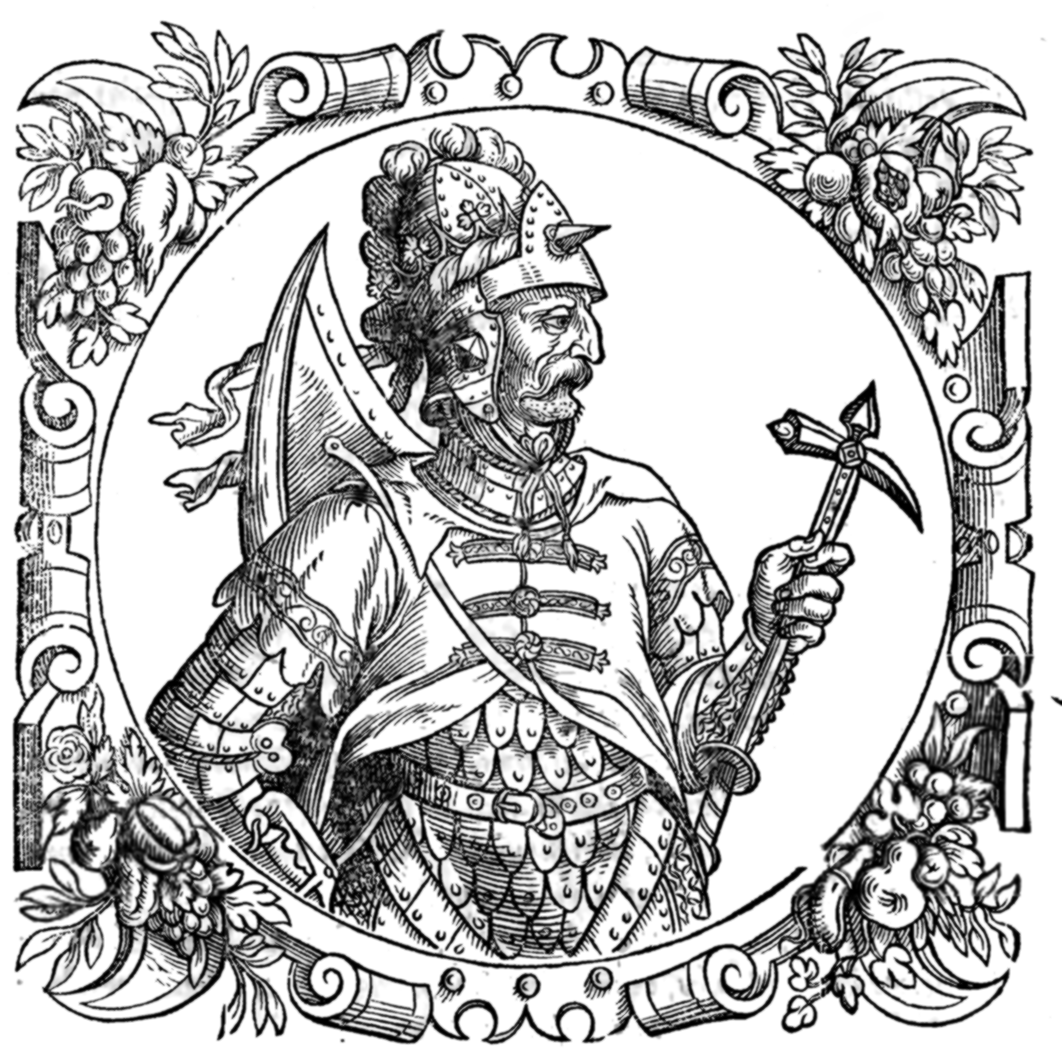 Boleslaus III of Poland in Sarmatiae Evropeae Descriptio